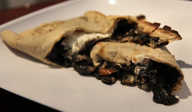 An empanada filled with huitlacoche or Corn Smut. Oaxaca, Oaxaca, Mexico.